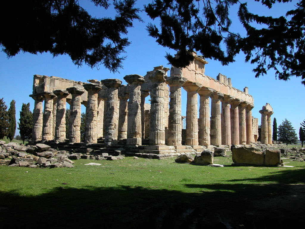 Archaeological Site of Cyrene, Libya